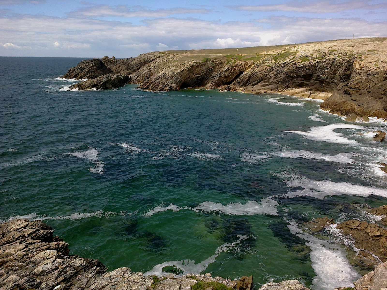 Morbihan Quiberon Cote Sauvage Port Guibello 27052014